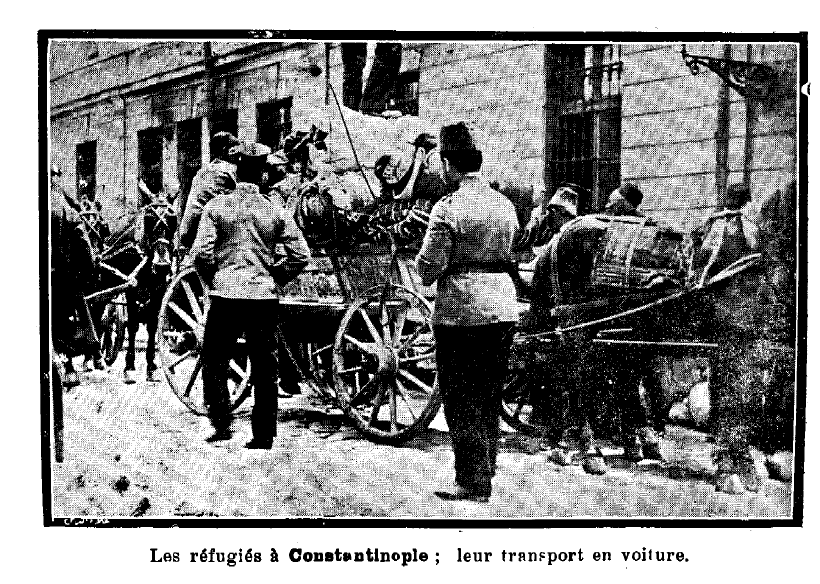 Date: 1921.